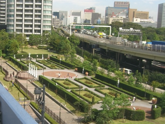 Italy Park in Tokyo, viewed from the Yurikamome